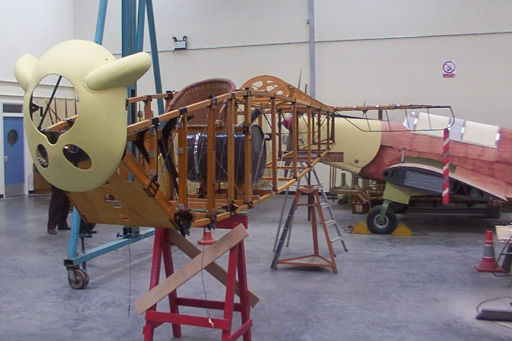 Michael Beetham Conservation Centre at the RAF Museum Cosford, England A Sopwith Dolphin under restoration with the Miles Mohawk waiting its turn behind